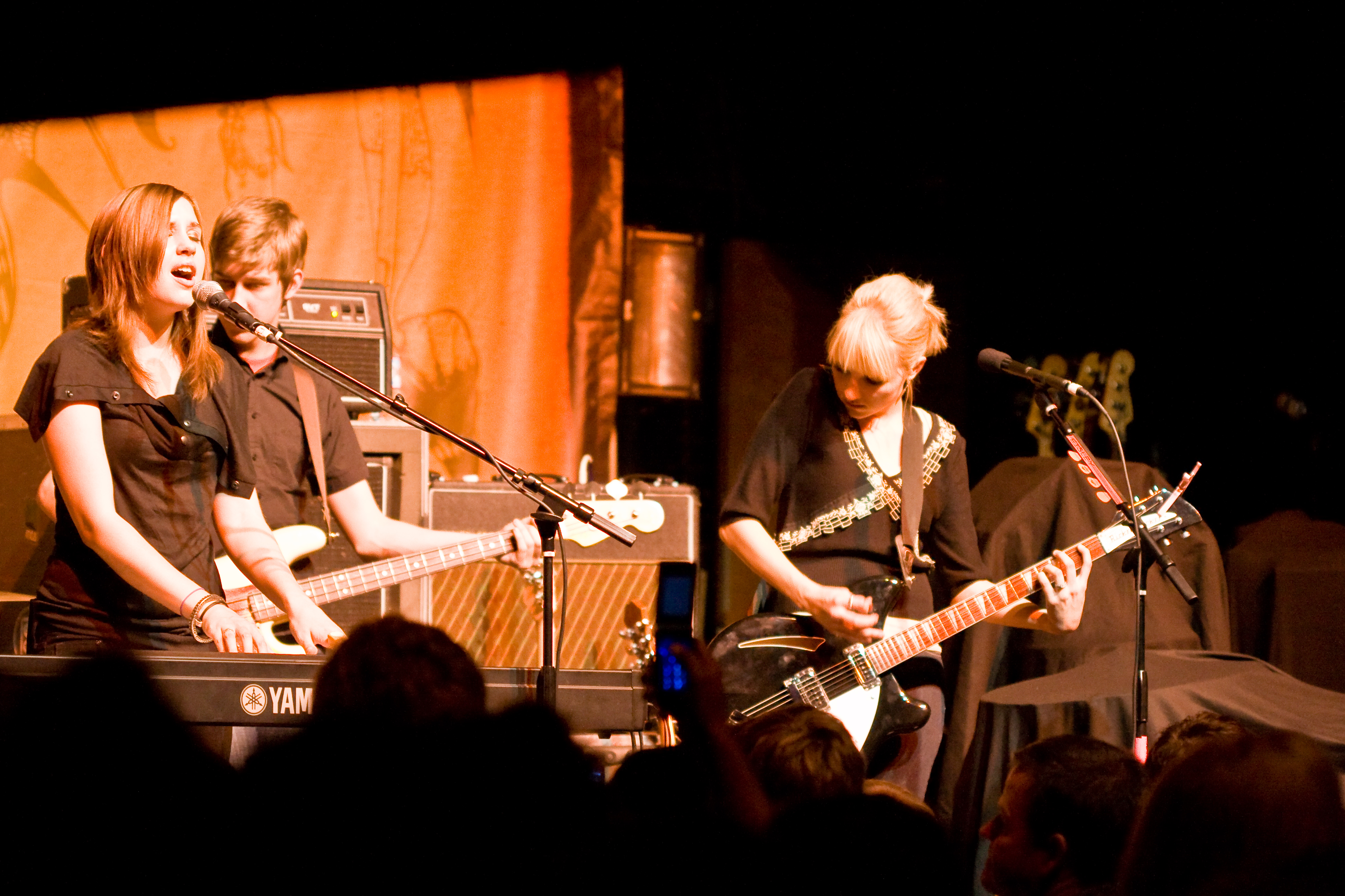 Eisley live